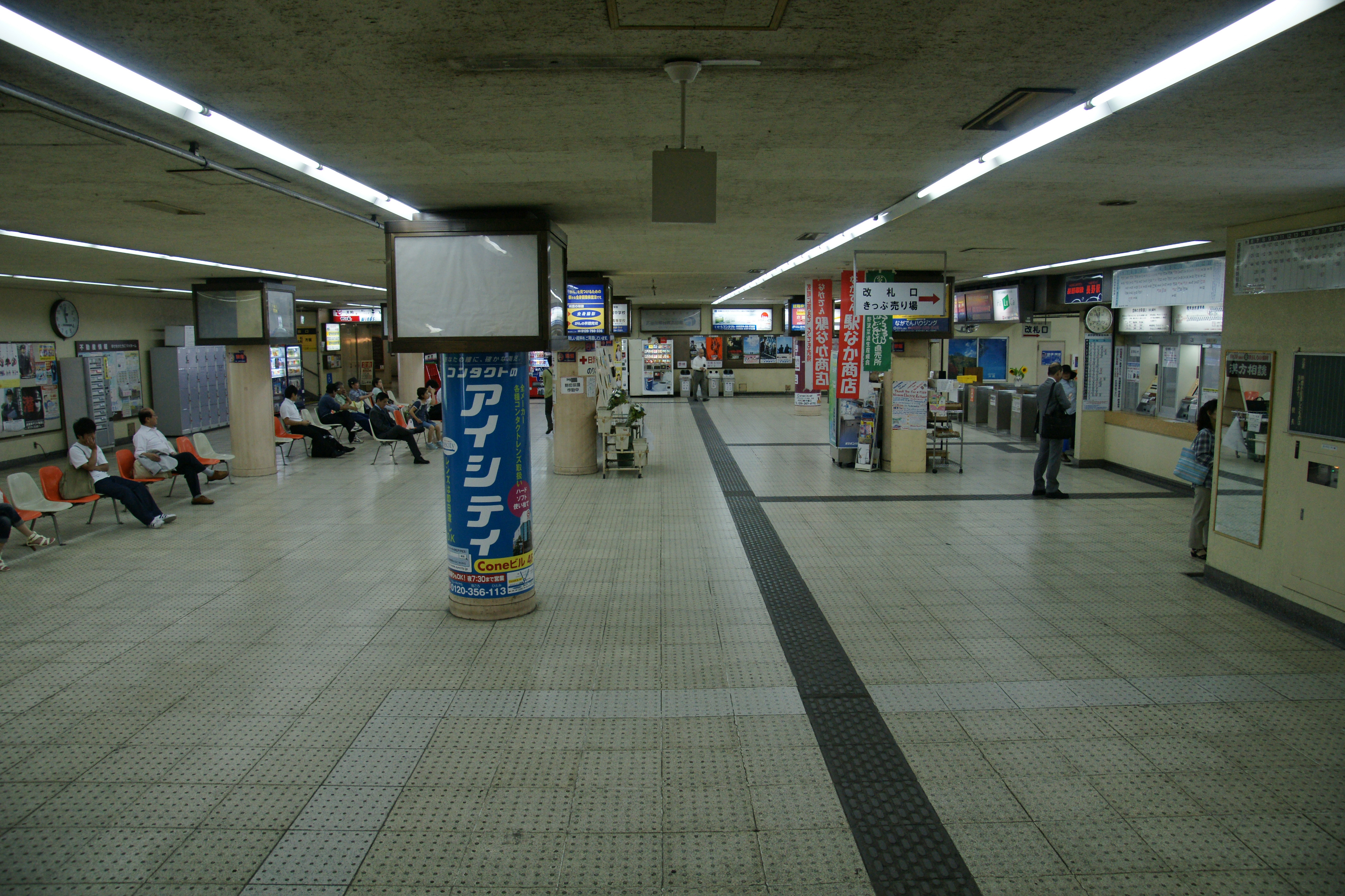 Nagano Station of Nagano Electric Railway in Nagano, Nagano prefecture, Japan